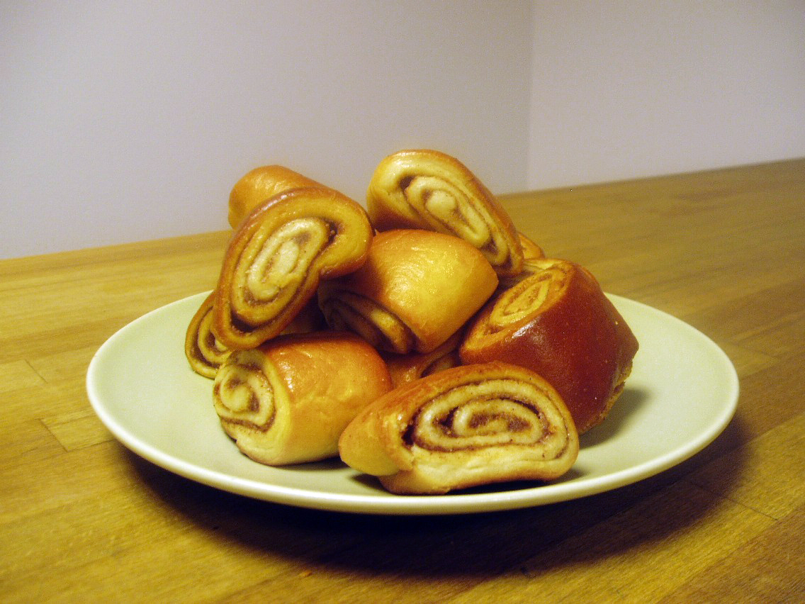 Gifflar, swedish kind of cake